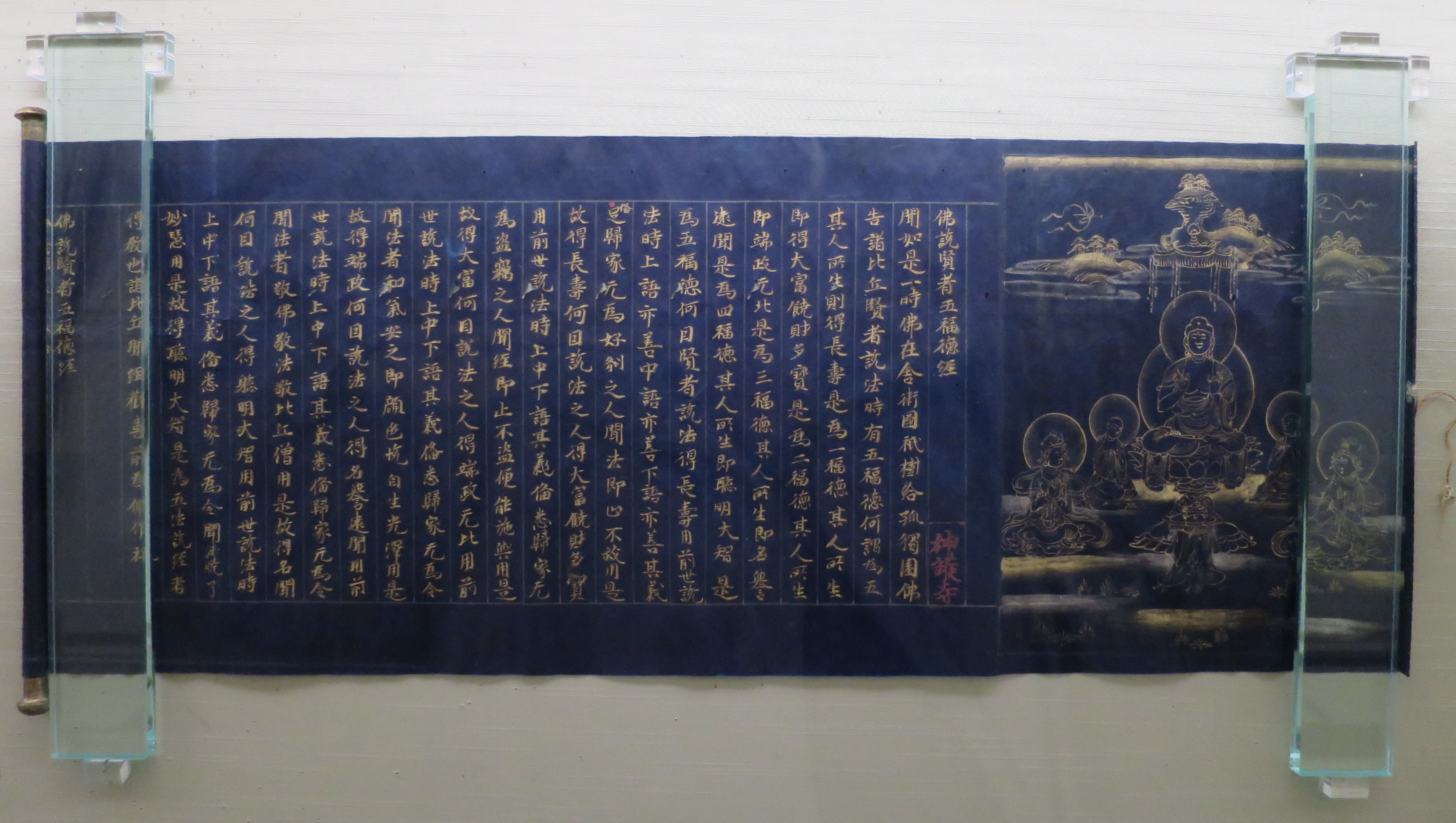 Kenja gofukutoku kyo Sutra, Heian period, dated 1185, gold ink on dark blue paper, Tokyo National Museum